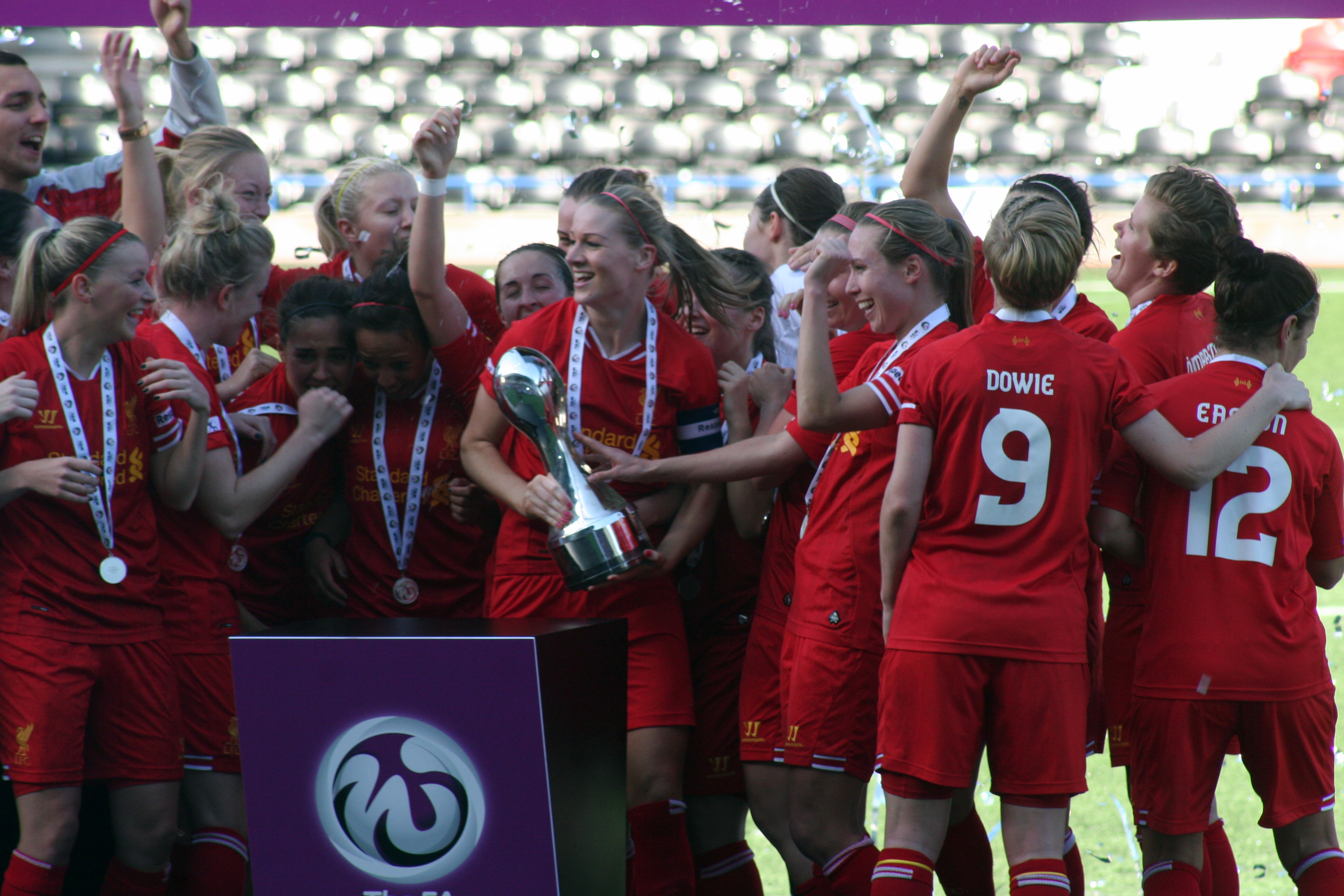 Liverpool L.F.C. - 2013 FA WSL Championship celebration